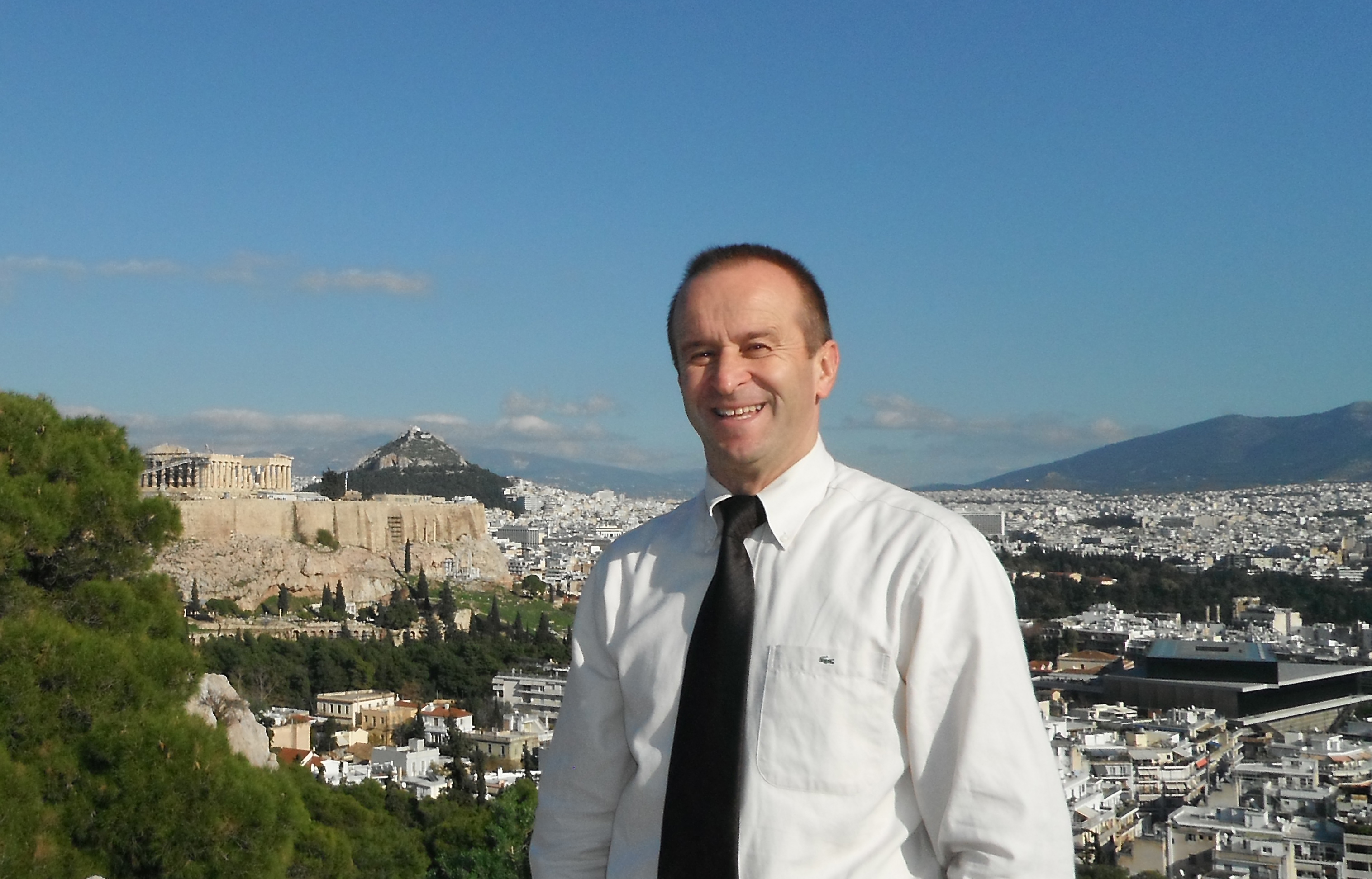 Dragan Djokanovic in Athens